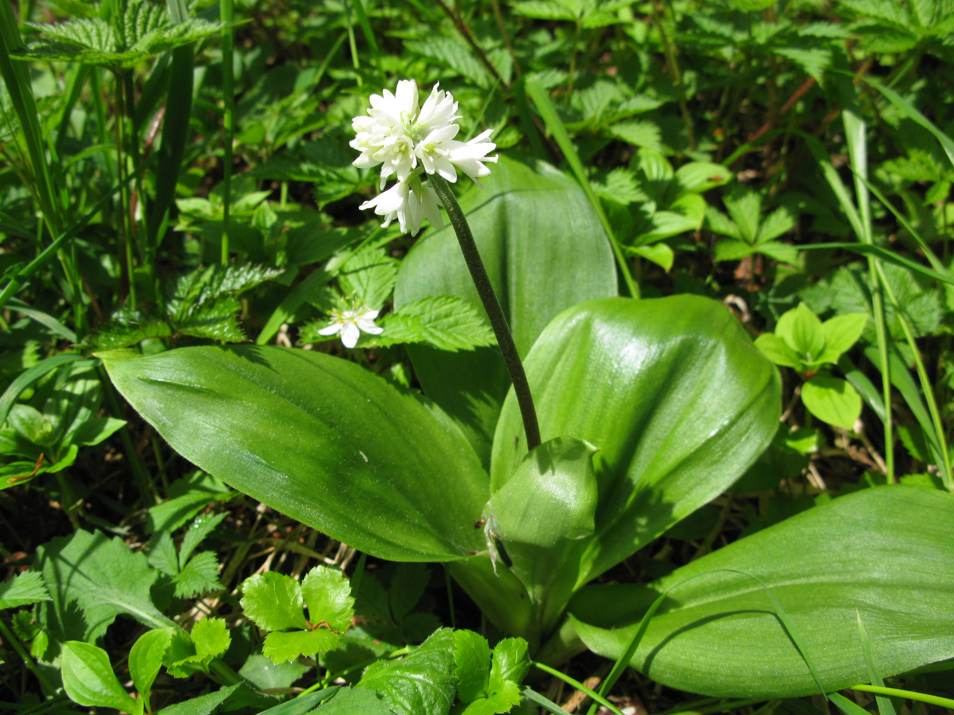 Clintonia udensis, Mount Taishaku-san, Fukushima pref., Japan